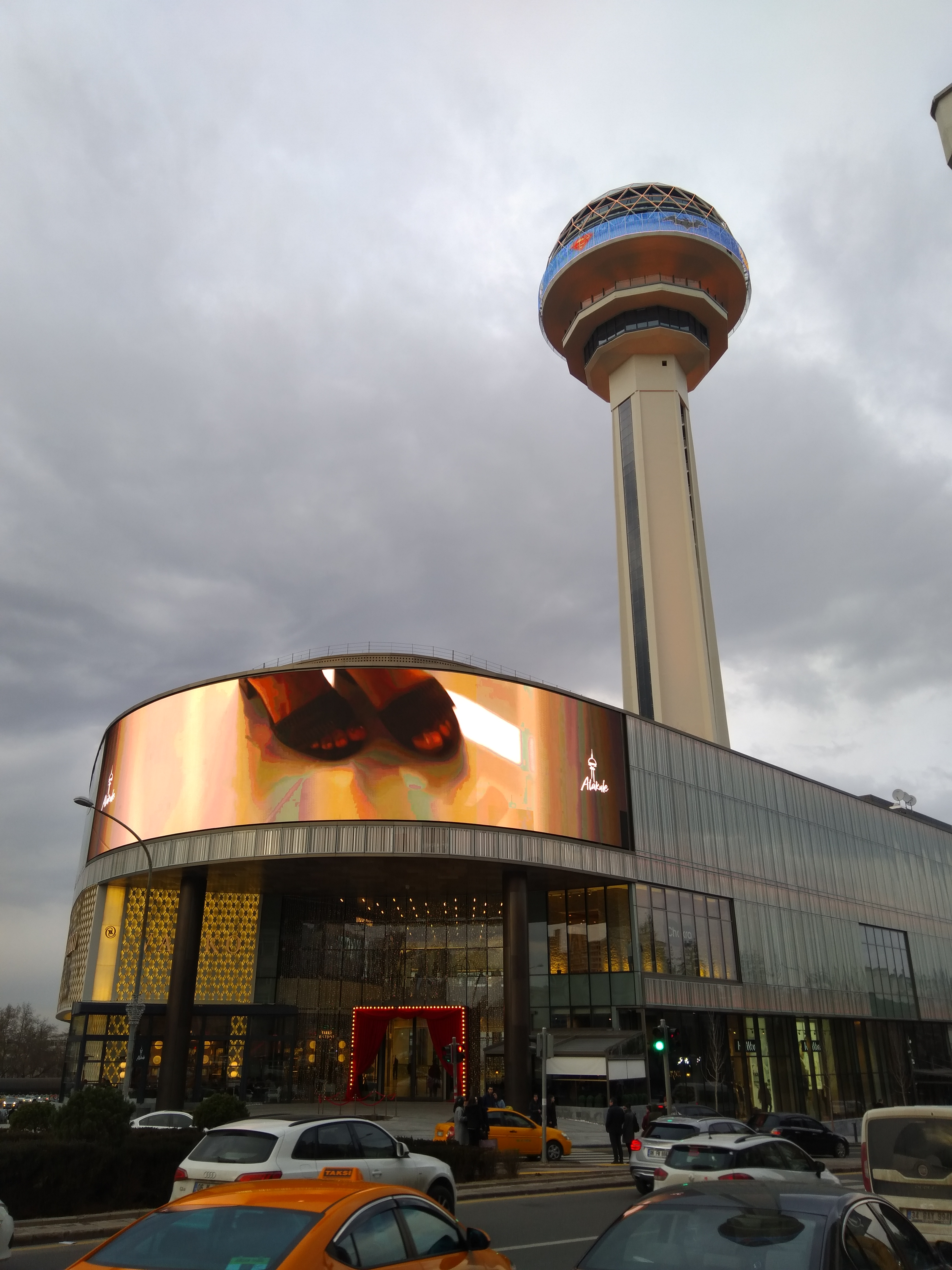 Shopping Mall of Atakule Tower in Ankara